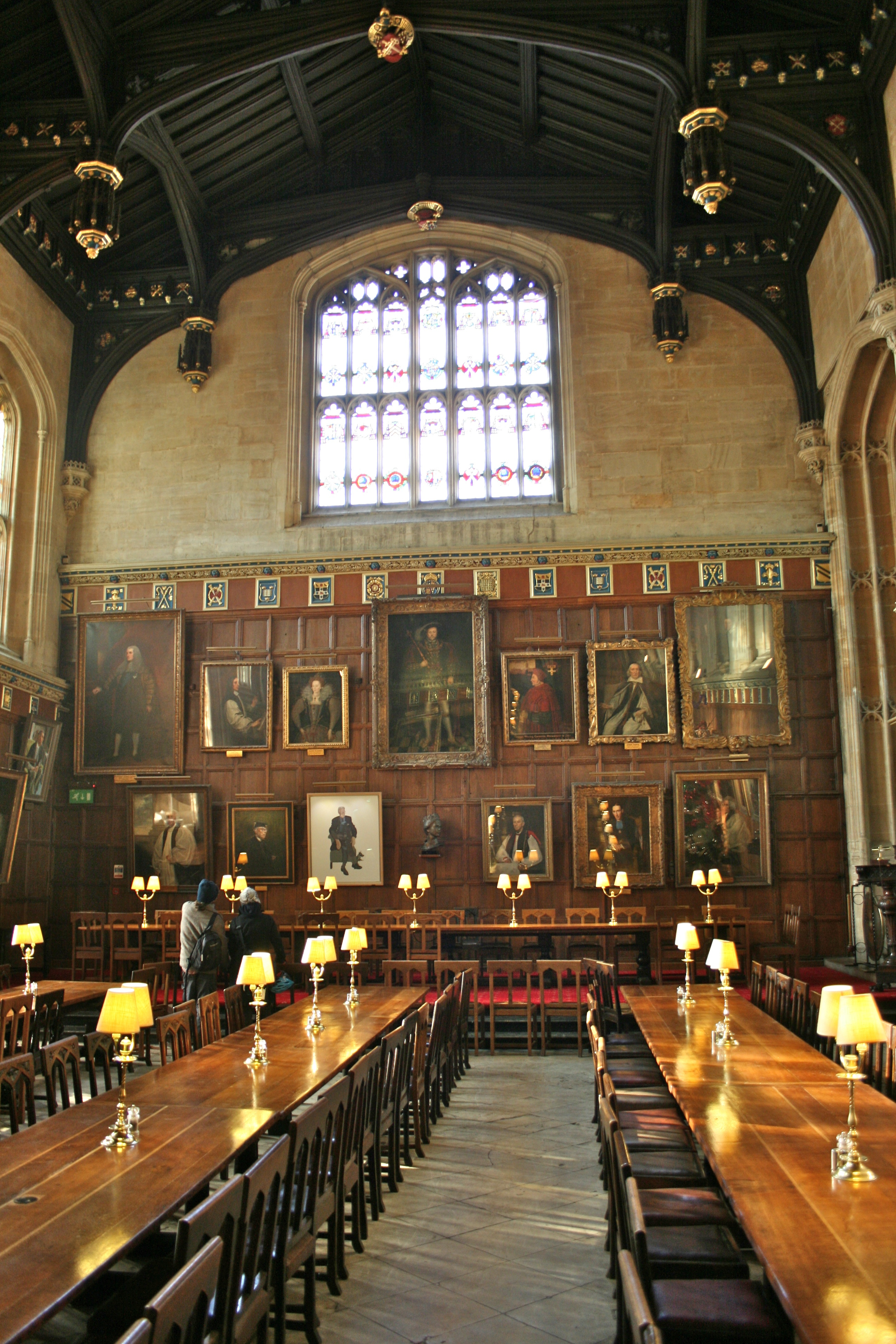 The Hall at Christ Church in Oxford, England.